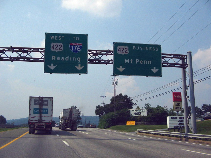 U.S. Route 422 approaching I-176